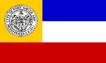 City flag of the City of Fort Smith, AR as adopted 1916 by the mayor. "I am proud that the honor has been bestowed upon me of dedicating to Fort Smith her municipal flag. (Raising of flag). The national colors — red, white and blue — express our national patriotism. The field of gold typifies solidity for which Fort Smith is famous. Around the city seal, the white circle denoting continuity signifies that we will ever be loyal to our motto, "All for One, One for All." May this flag ever wave over as good and brave a people as it does today and speak to the world of their peace, purity and prosperity." This image shows a flag, a coat of arms, a seal or some other official insignia. The use of such symbols is restricted in many countries. These restrictions are independent of the copyright status. This media file is in the public domain in the United States. This applies to U.S. works where the copyright has expired, often because its first publication occurred prior to January 1, 1923. See this page for further explanation. This image might not be in the public domain outside of the United States; this especially applies in the countries and areas that do not apply the rule of the shorter term for US works, such as Canada, Mainland China (not Hong Kong or Macao), Germany, Mexico, and Switzerland. The creator and year of publication are essential information and must be provided. See Wikipedia:Public domain and Wikipedia:Copyrights for more details.